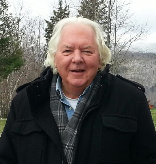 Robert Moss Gore Mountain